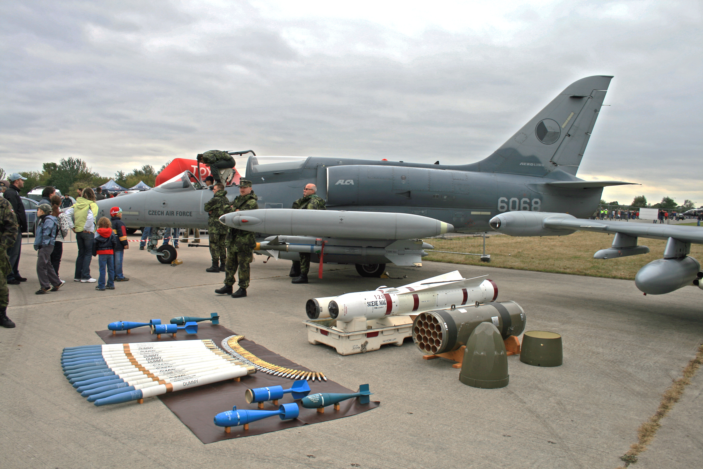 Czech military aircraft Aero L-159 on Czech Air show CIAF 2009 in Hradec Králové, Czech Republic